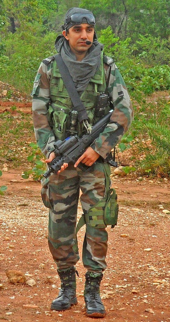 Devendra Singh Kaswa, Dy Commandant, Officer Commanding in CoBRA